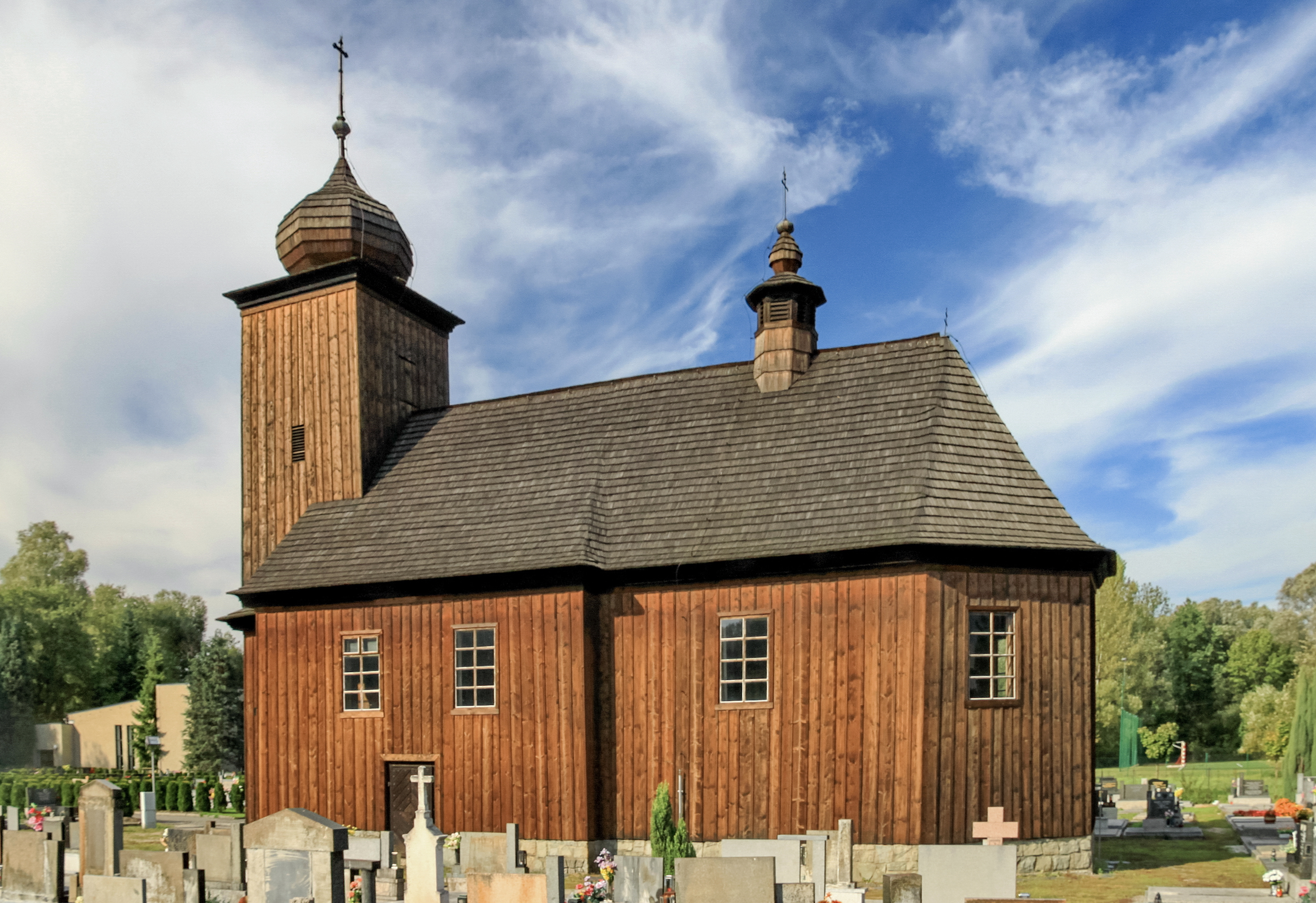 Church of Saints Peter and Paul. Albrechtice, Moravian-Silesian Region, Czech Republic.